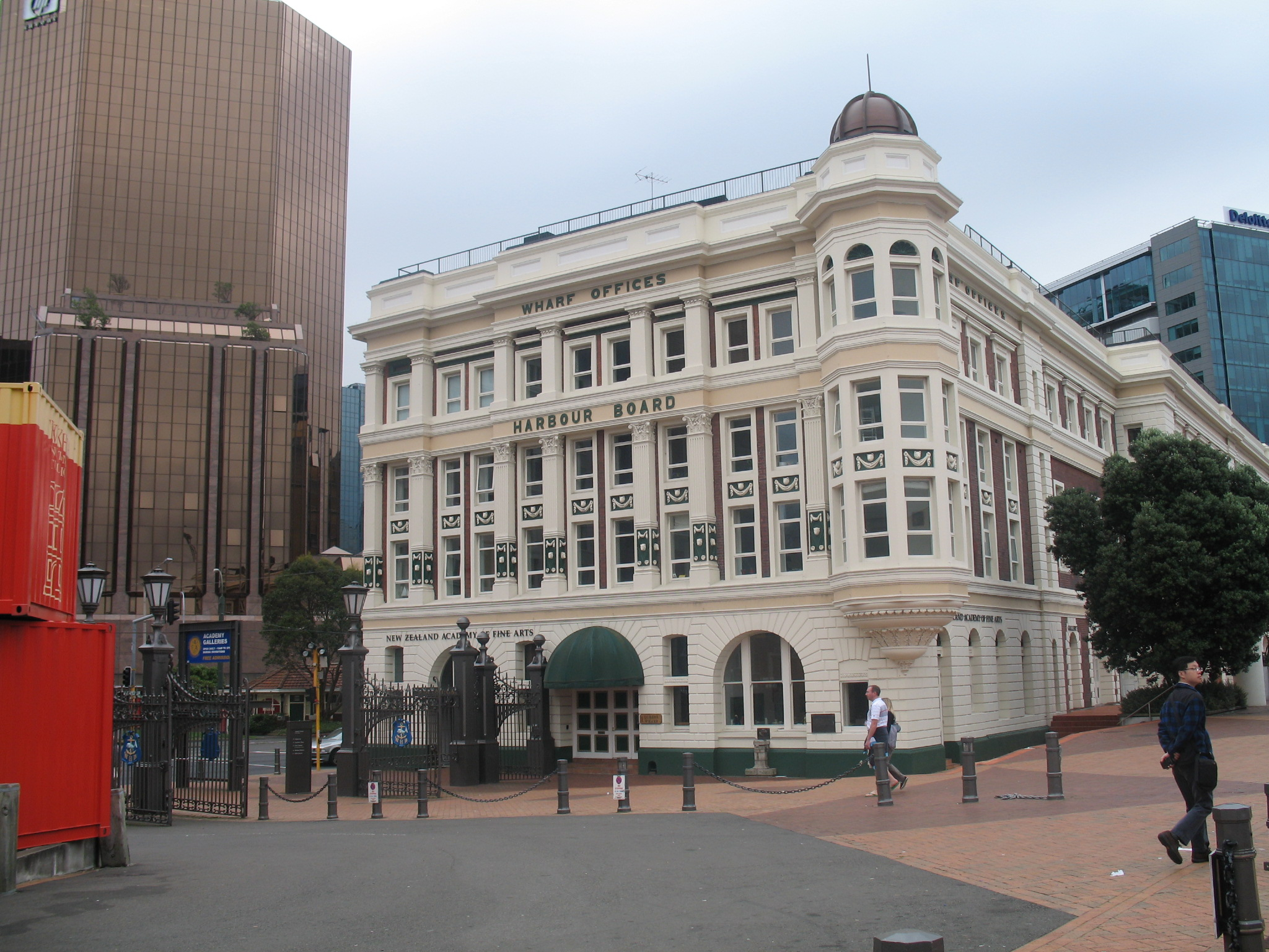 The old harbour board building. This side of it Wellington City Museum. Just a greatt little museum who expertly grasped best of all history as story. Told the history of Wellington in 100 tales. Fab